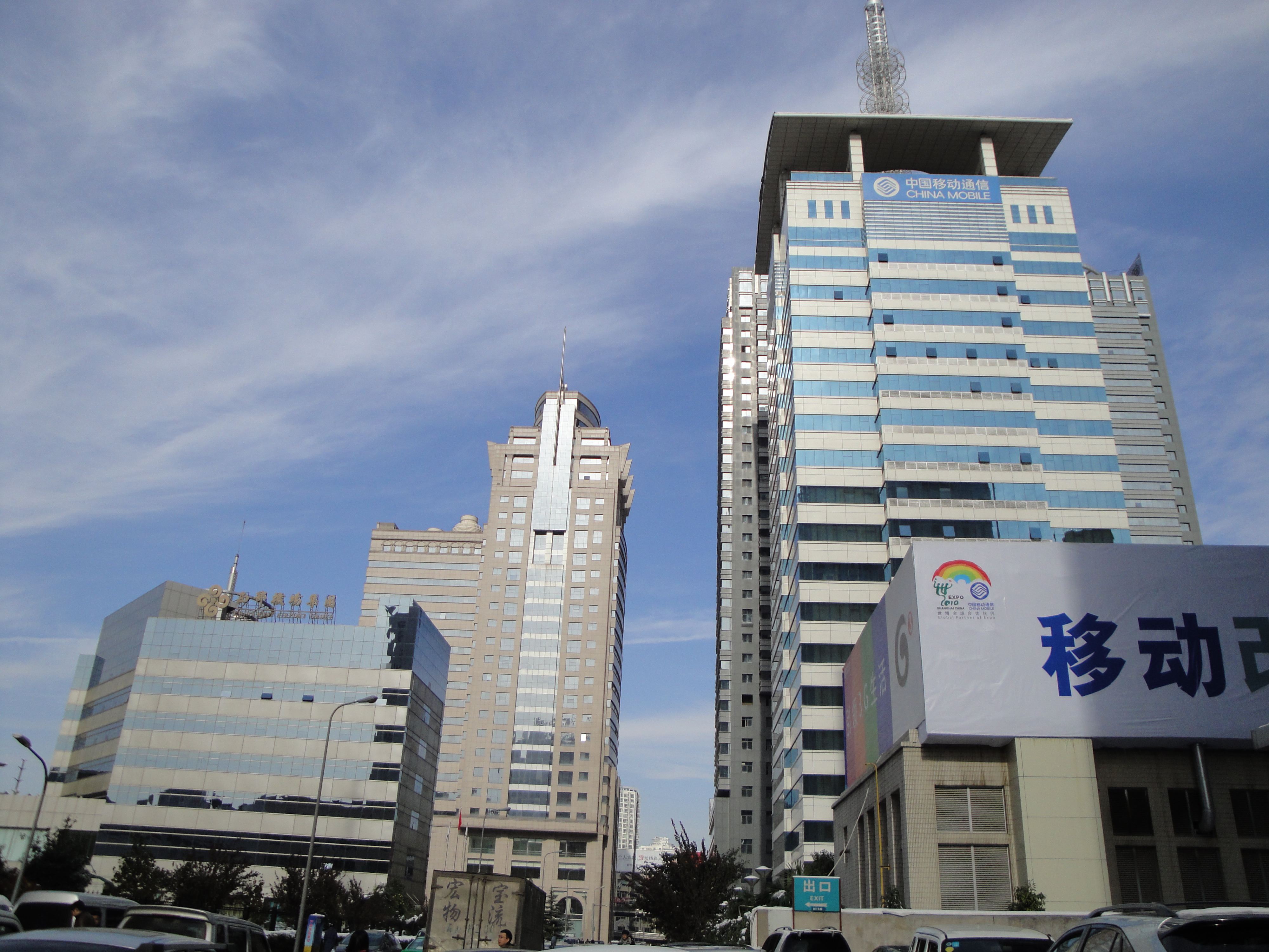 ChinaMobile Communication Corporation,xi'an,CHINA